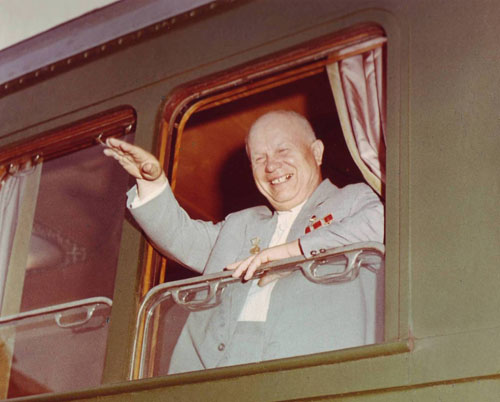 Color Photo of Nikita Khrushchev